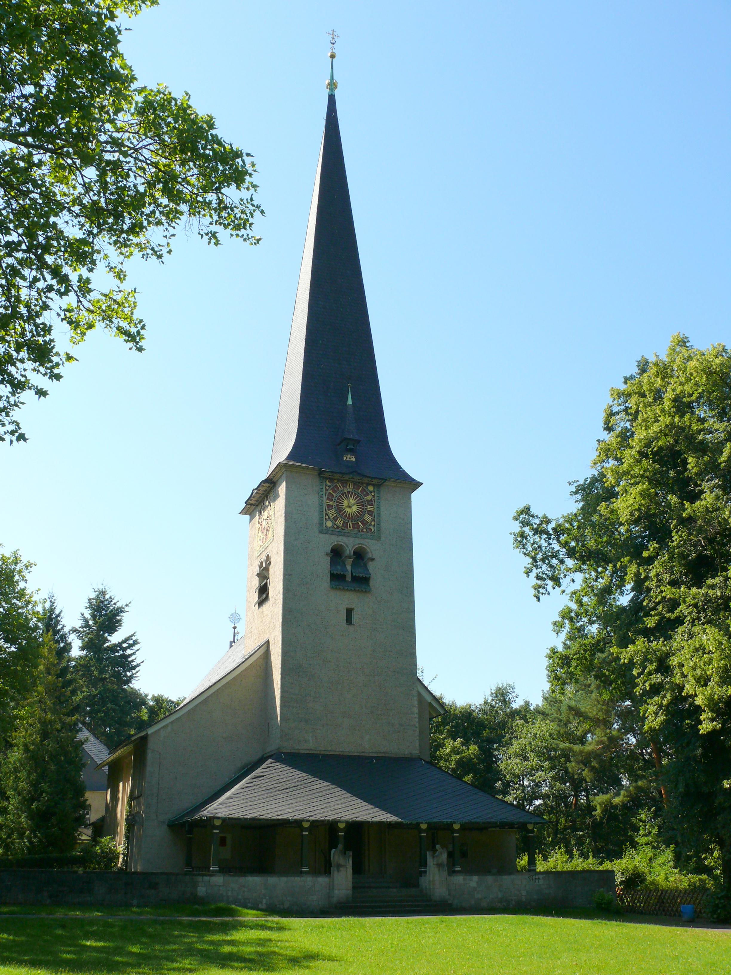 Berlin-Nikolassee Kirchweg Kirche Nikolassee